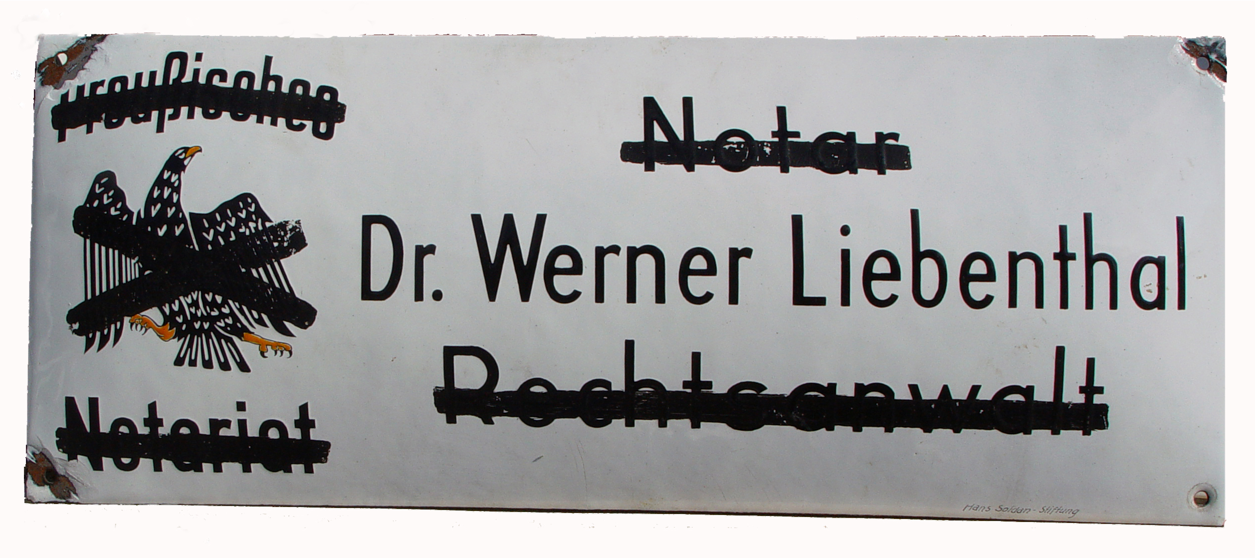 Nameplate of Dr. Werner Liebenthal, Notary & Advocate. The plate (20 X 50 cms.) was hung outside his office on Martin Luther Str, Schöneberg, Berlin. In 1933, following the Law for the Restoration of the Professional Civil Service the plate was painted black by the Nazis, who boycotted Jewish owned offices. Liebenthal was banned from his profession on the 6th of July, 1933. [1]Liebenthal removed the plate and subsequently left Germany to Palestine in 1939. Since then the plate has been kept by his daughter Hanna Liebenthal.